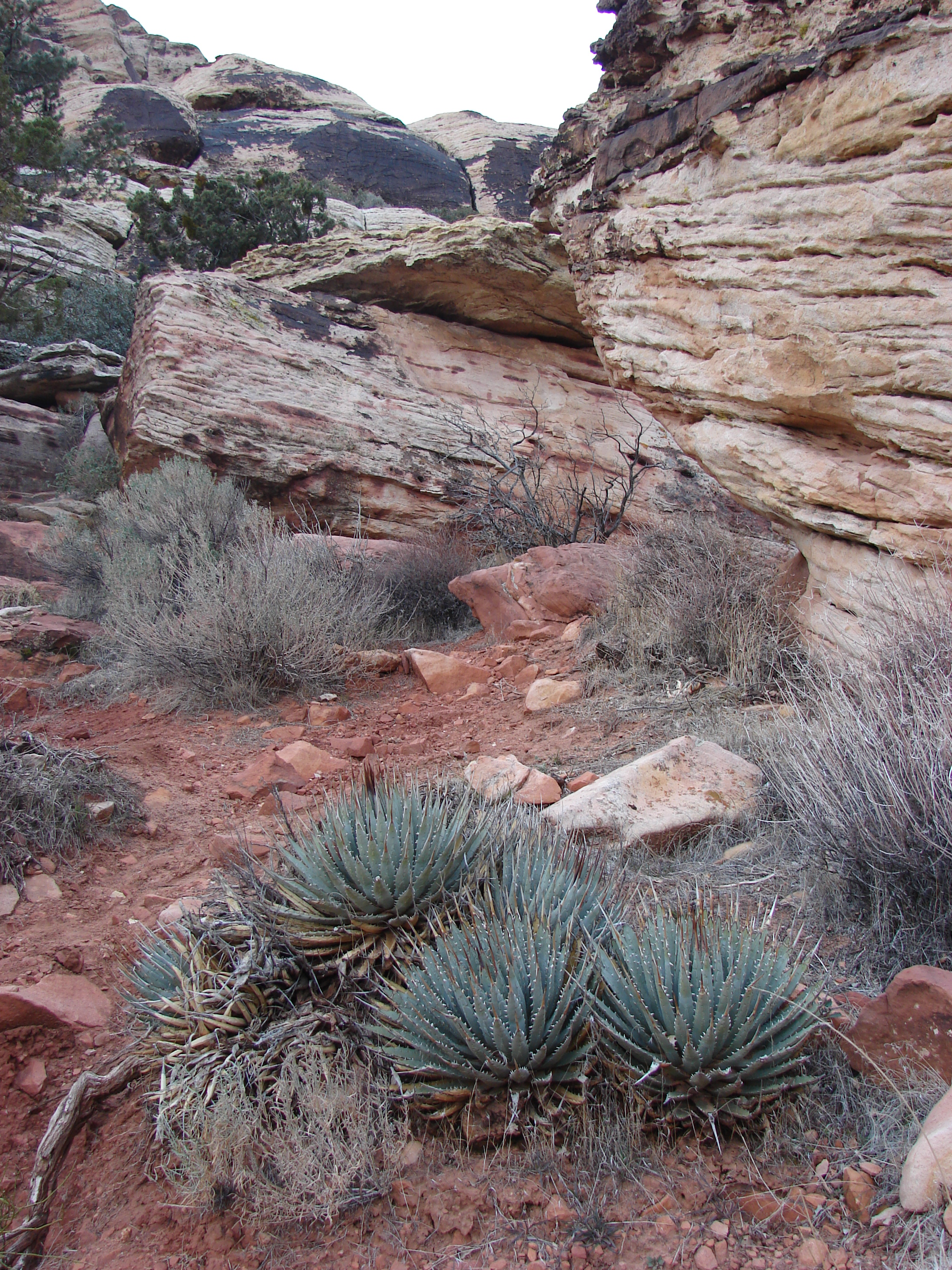 Agave utahensis (habit). Location: Nevada, Childrens Discovery Loop Red Rocks